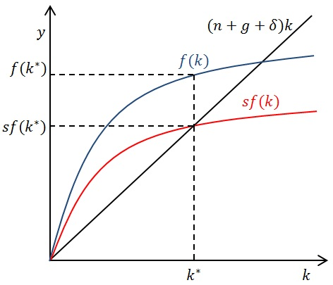 Solow model, equilibrium